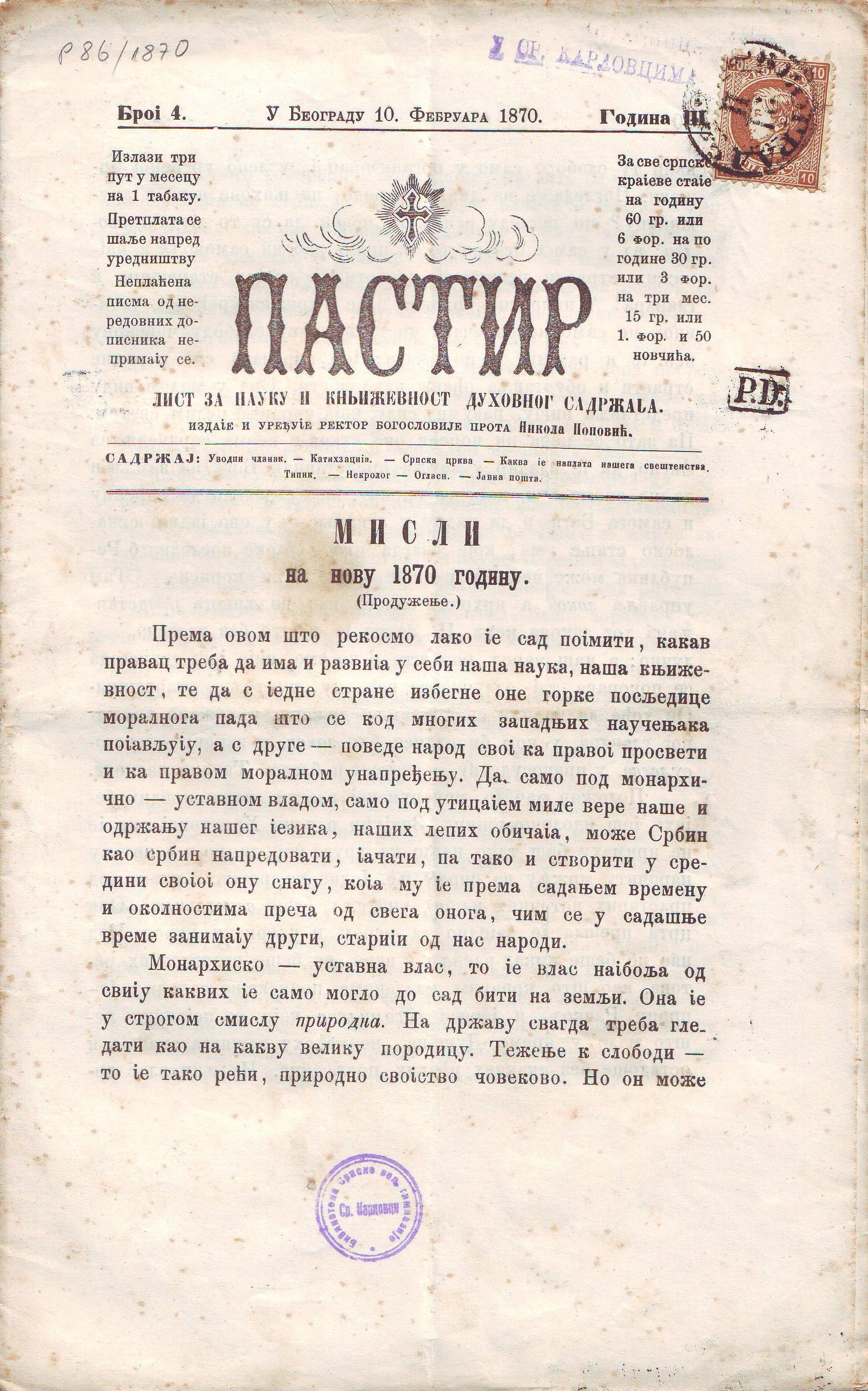 Front page of the magazine for science and literature of spiritual content Pastir from 10 February 1870. Srpski (latinica): Naslovna strana izdanja lista za nauku i književnost duhovnog sadržaja Pastir za 10. februar 1870. godine.